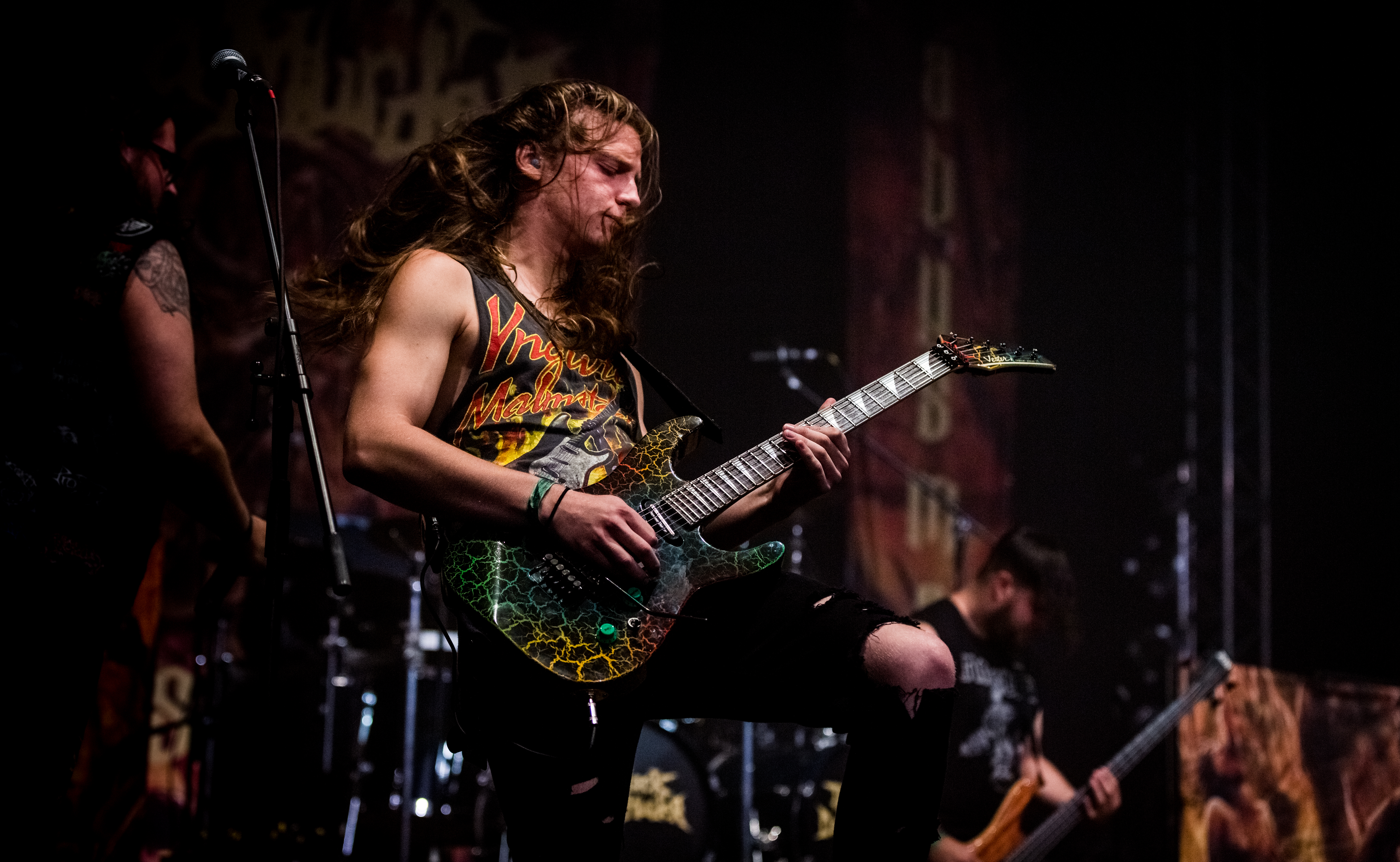 The Black Dahlia Murder - Wacken Open Aire 2016